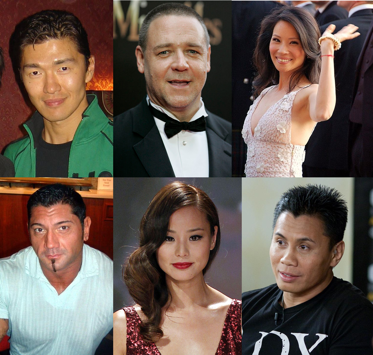 A composite picture of cast members from The Man with the Iron Fists, Rick Yune, David Bautista, Russell Crowe, Lucy Liu, Jamie Chung and Cung Le.